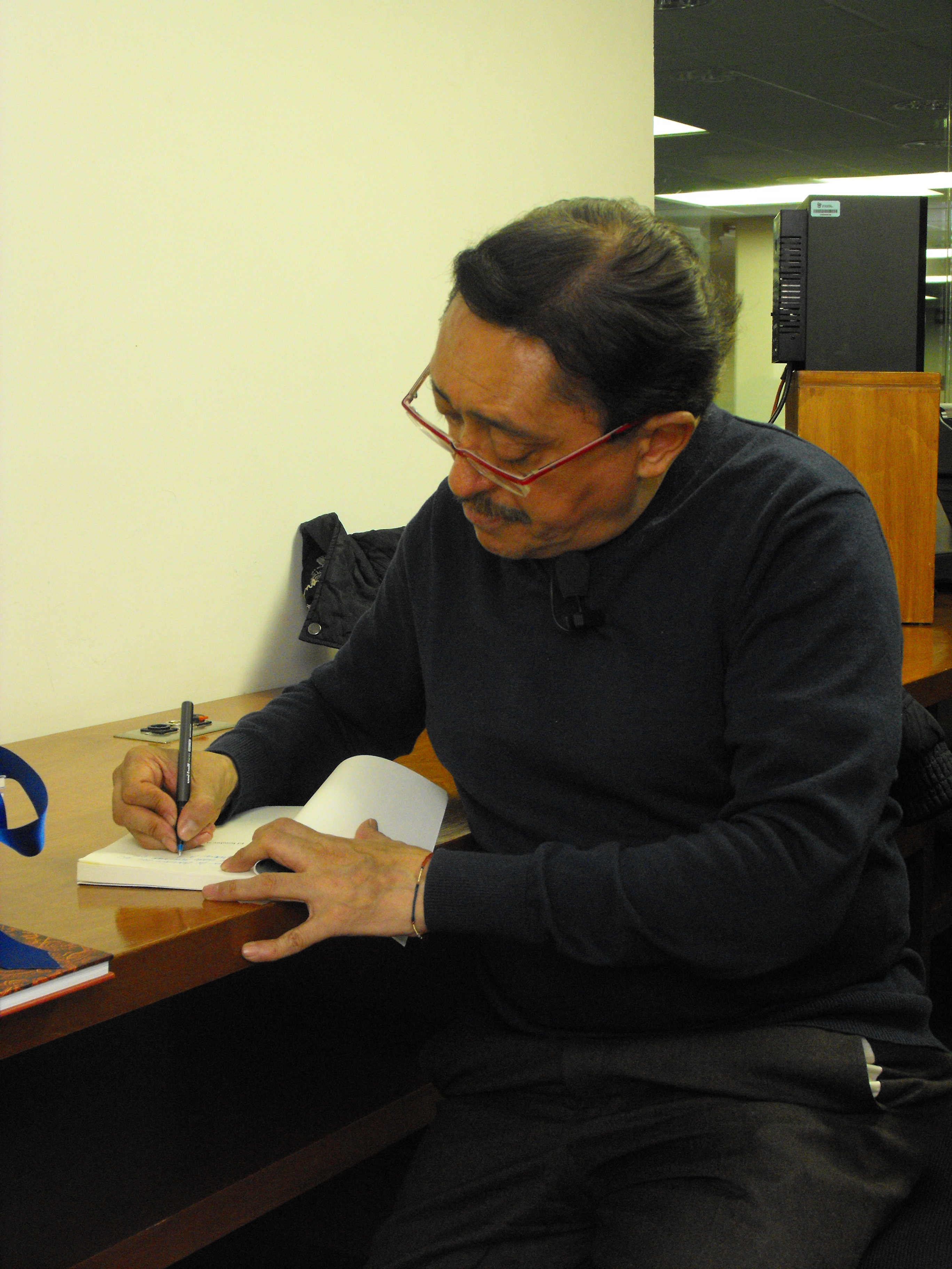 Sergio González Rodríguez signing a book after a presentation at the Tec de Monterrey, Mexico City Campus